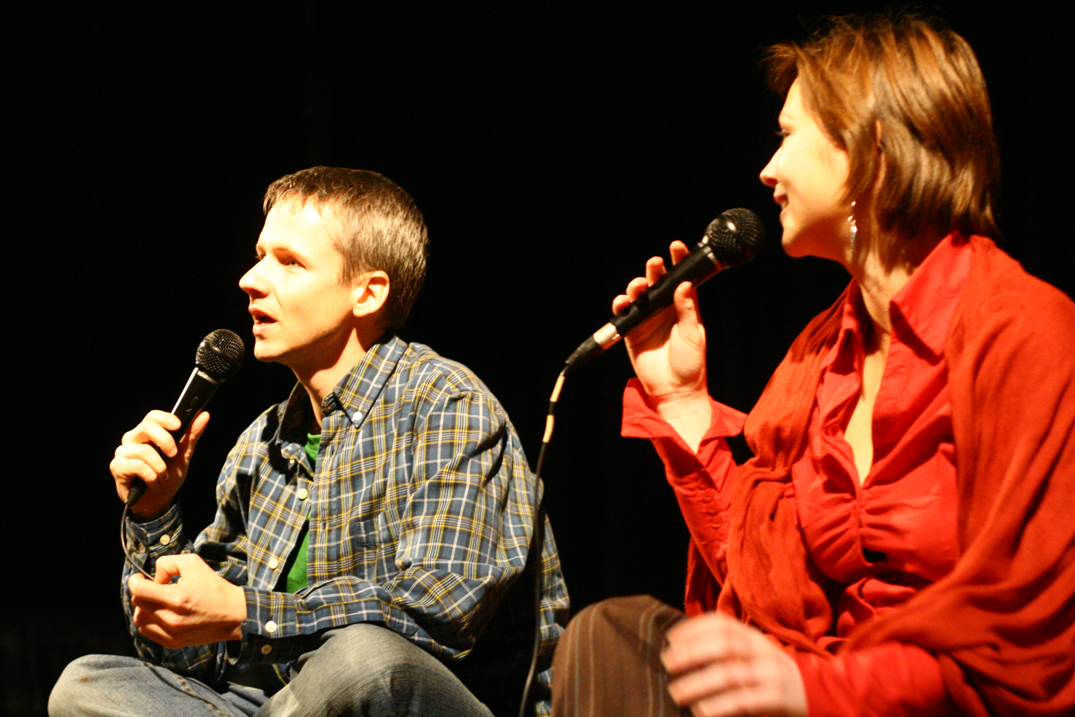 John Cameron Mitchell & Michaela Pňačeková (right) during Q&A at Mezipatra gay & lesbian film festival 2006 at Kino Světozor, Prague, Czech Republic.